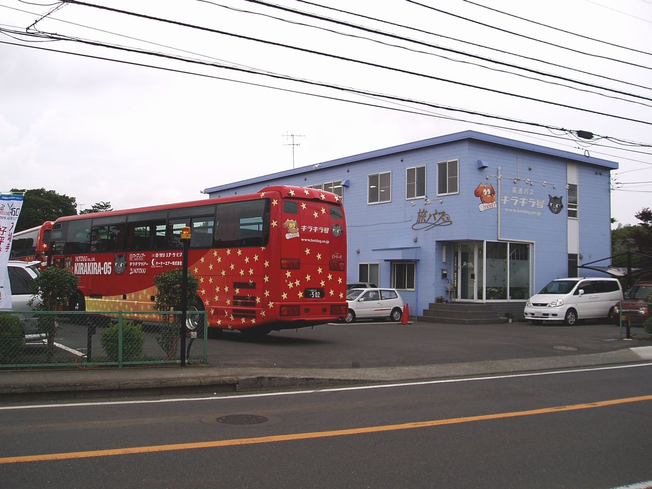 Tabi Bus Kanagawa Branch